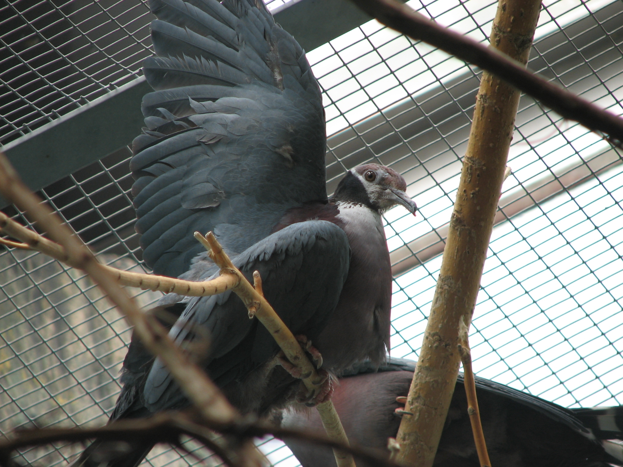 Collared Imperial-pigeon/Black-collared Fruit Pigeon